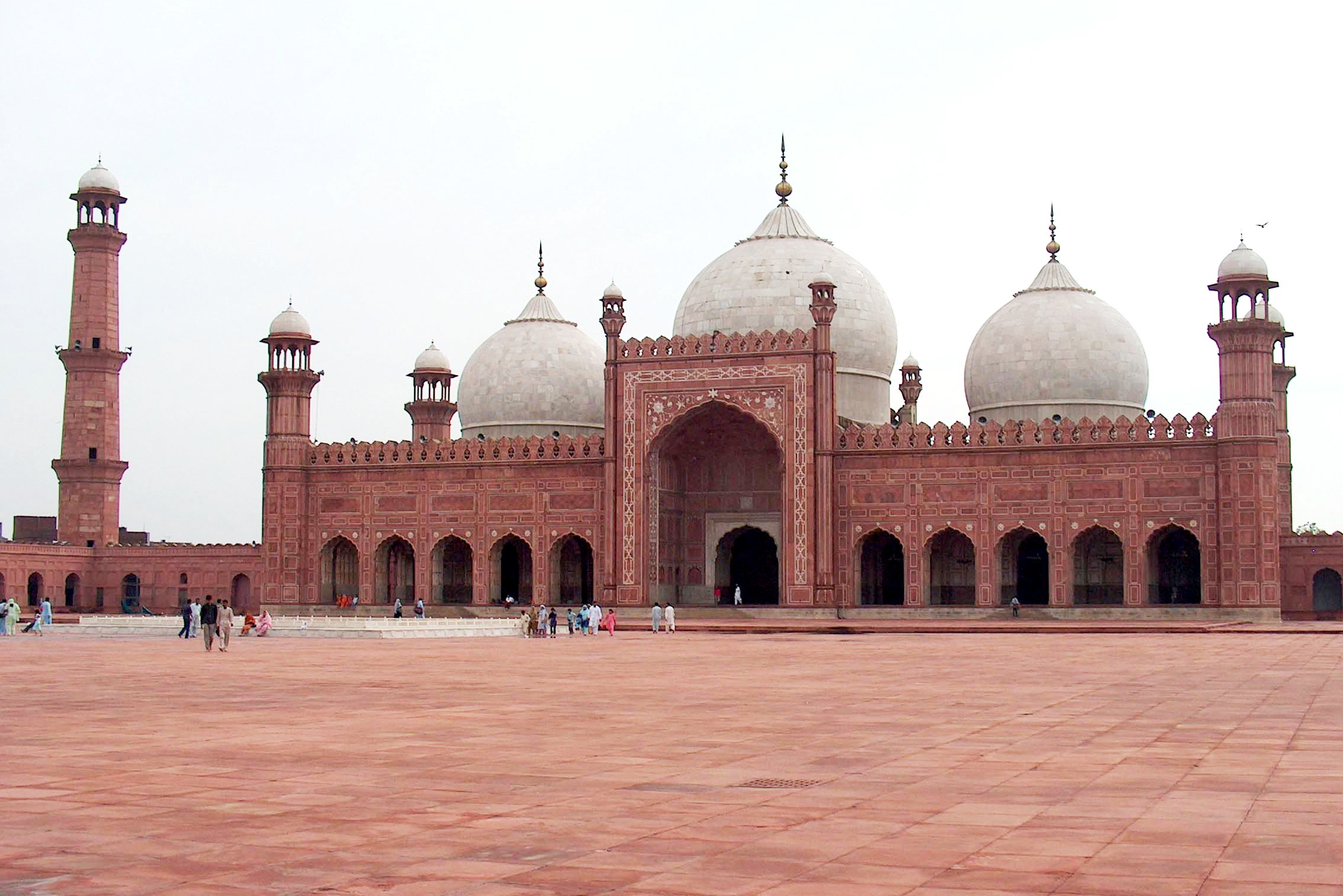 A 4 Megapixel picture of Badshahi Mosque, Lahore, Pakistan.